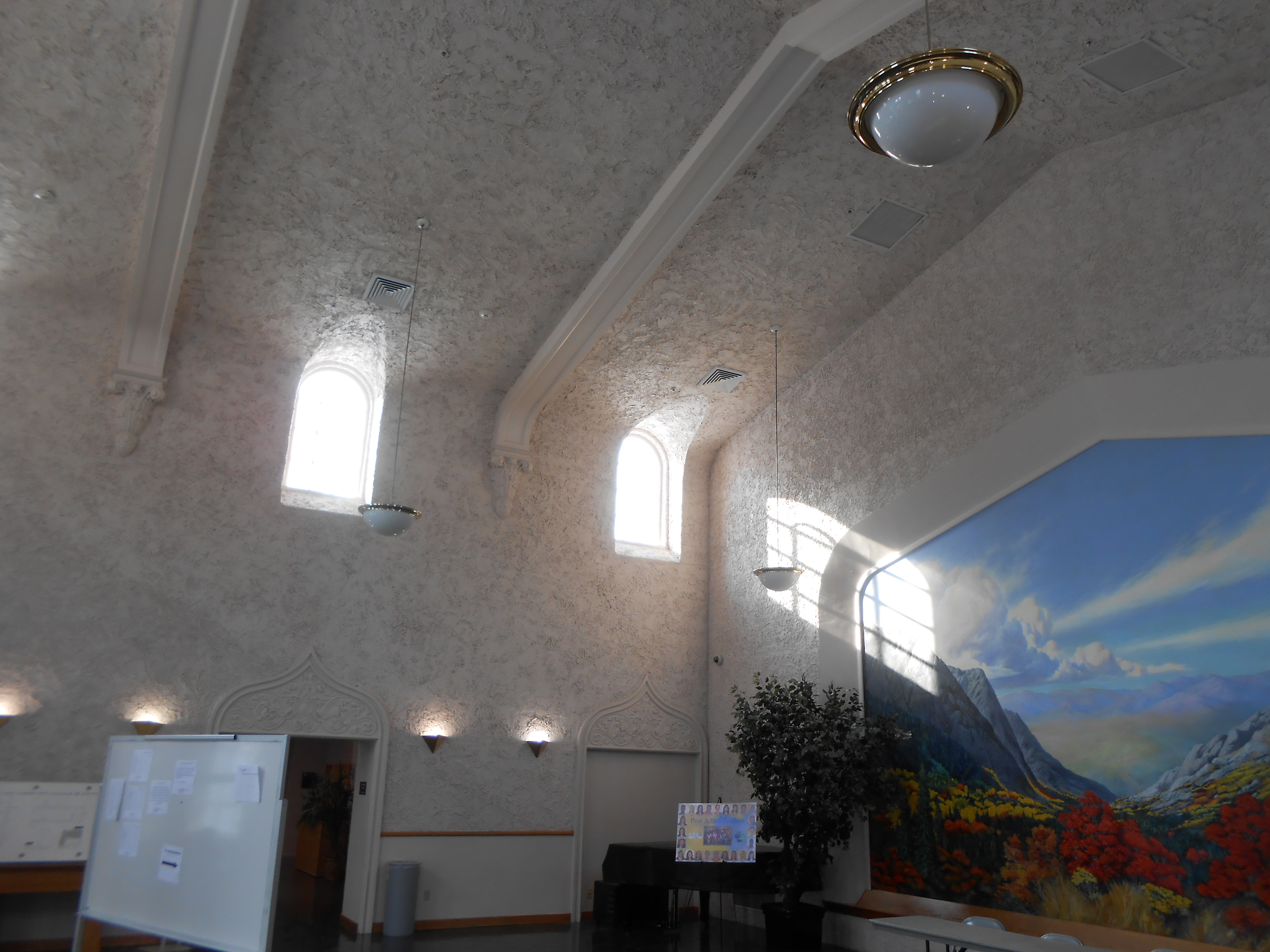 foyer inside rear entrance to South High School (Salt Lake City)